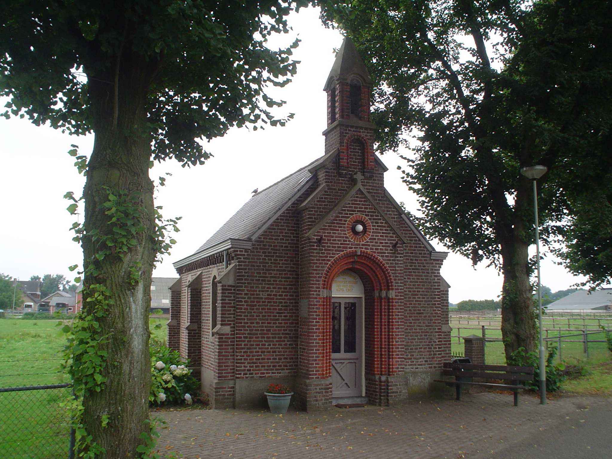 Our Lady of Perpetual Help chapel at the Klaarstraatzijweg near Ospel, the Netherlands.